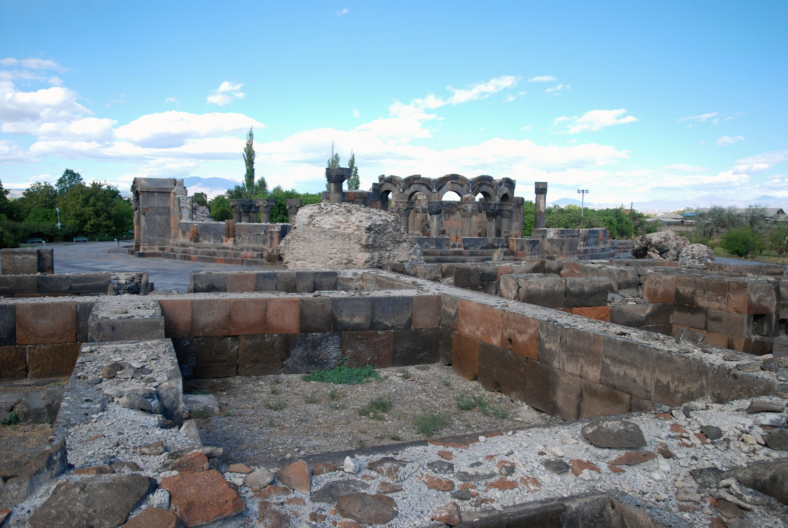 Zvartnots, palace and church